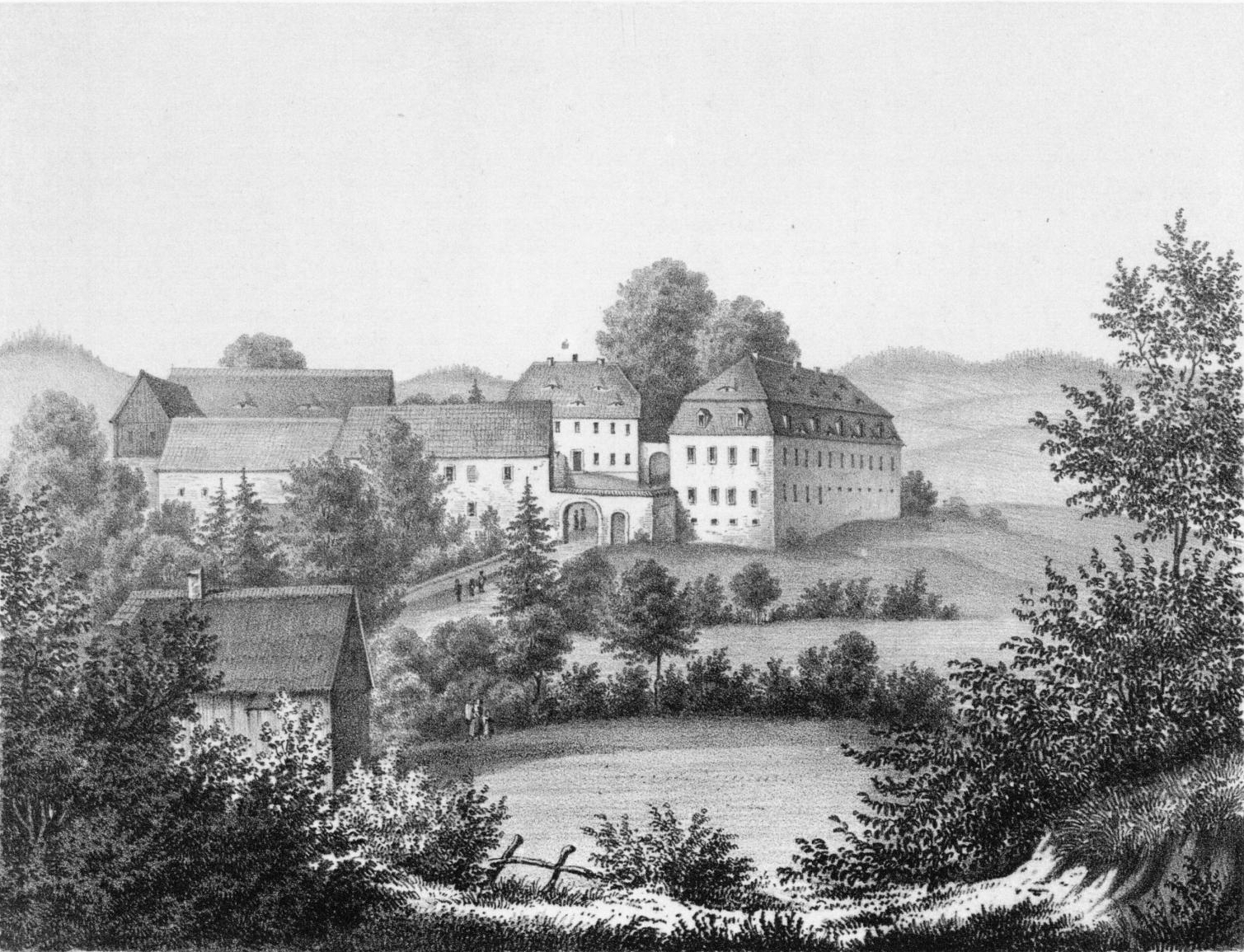 manor Dörnthal in the Erzgebirge